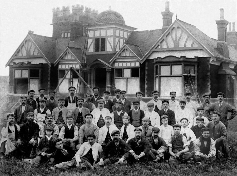 The Illawalla, Thornton, Lancashire.